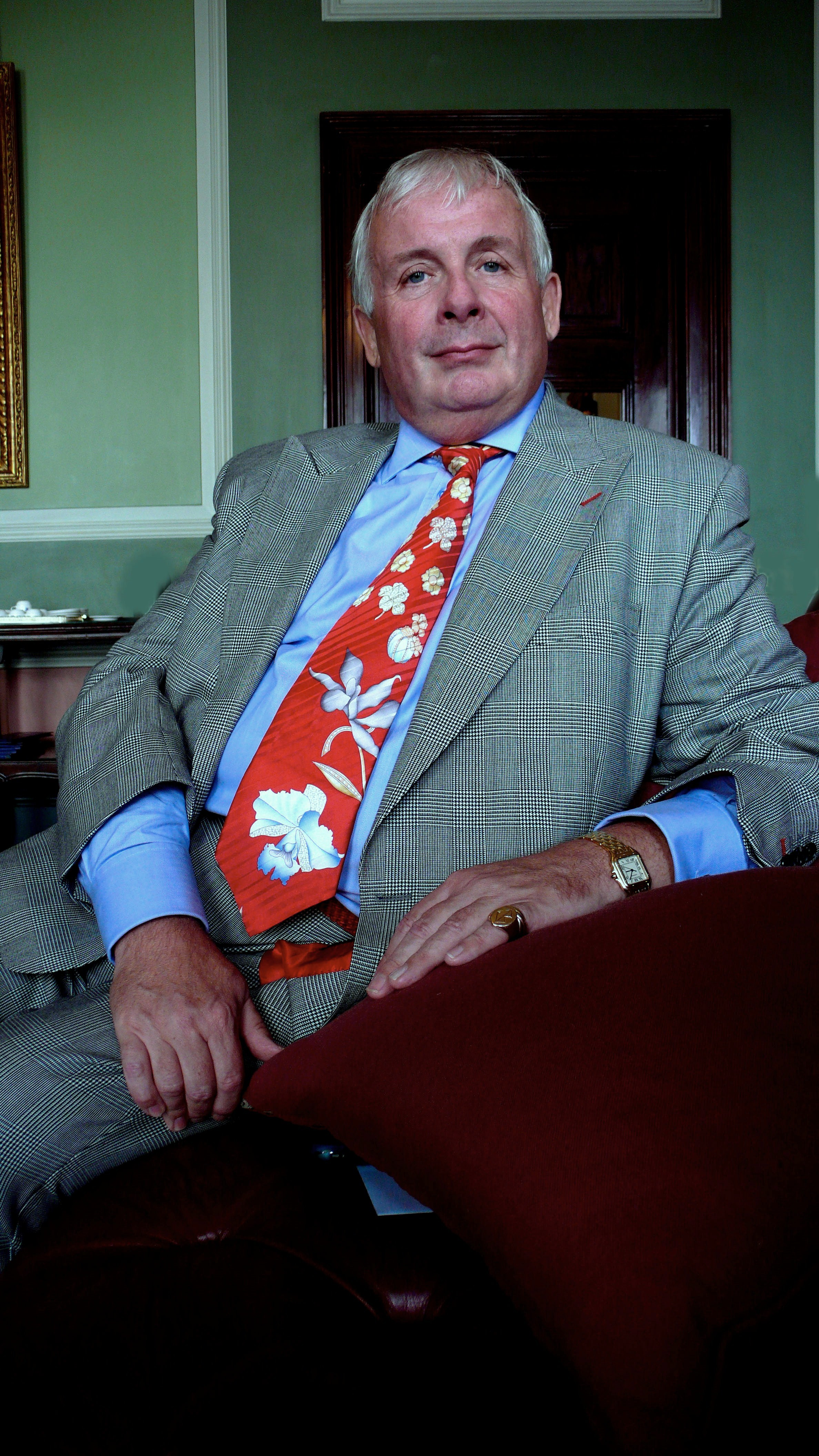 portrait Christopher Biggins